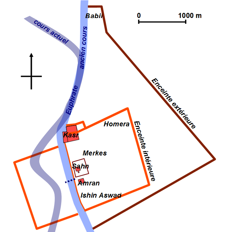 Simplified plan of the archaeological site of Babylon.